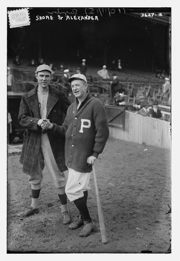 Major League Baseball players Ernie Shore (left) and Grover Cleveland Alexander (right) during the 1915 World Series.